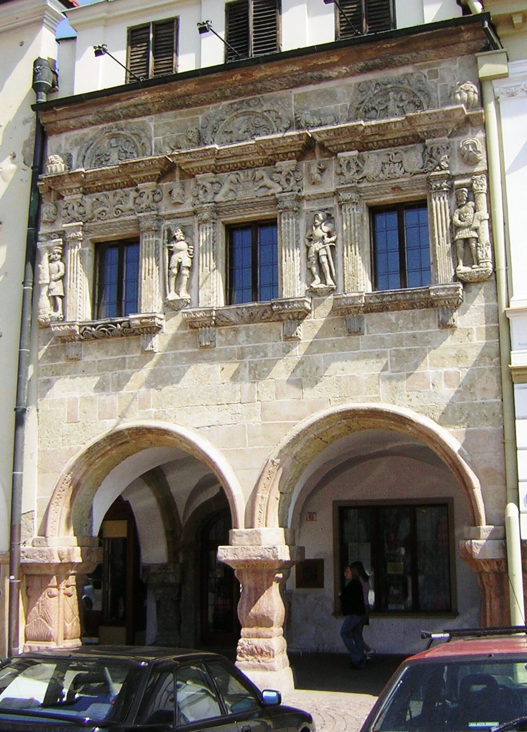 Litomyšl, house U rytířů, No. 110 (about 1550)